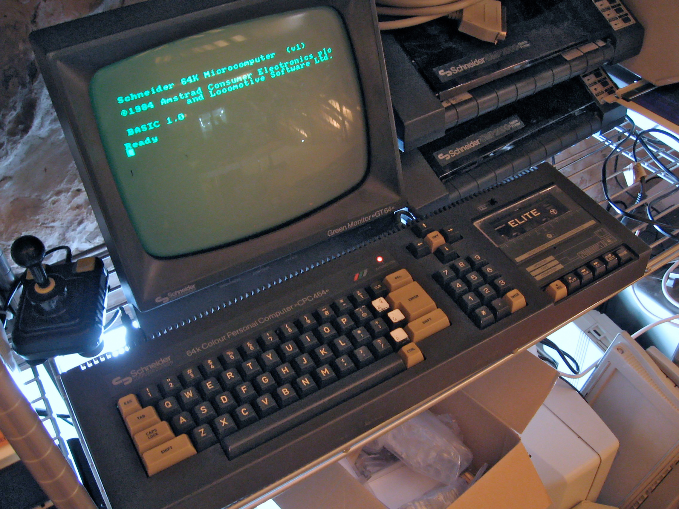 Schneider CPC-464 computer (a licensed clone of the Amstrad CPC-464) with Schneider DMP2000 matrix printers and GT 64 green screen monitor.